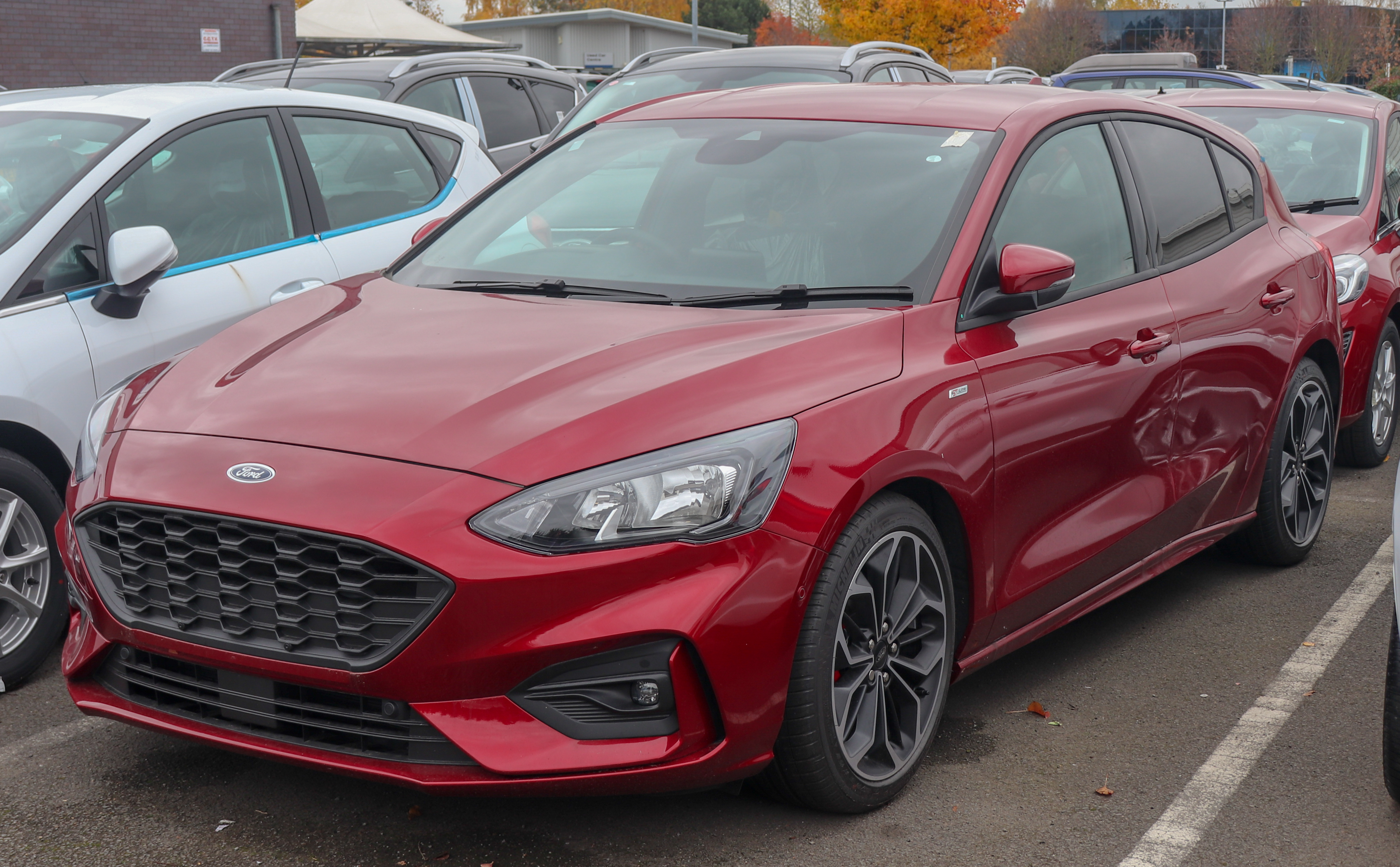 2018 Ford Focus ST-Line in Ruby Red Taken in Lemaington Spa